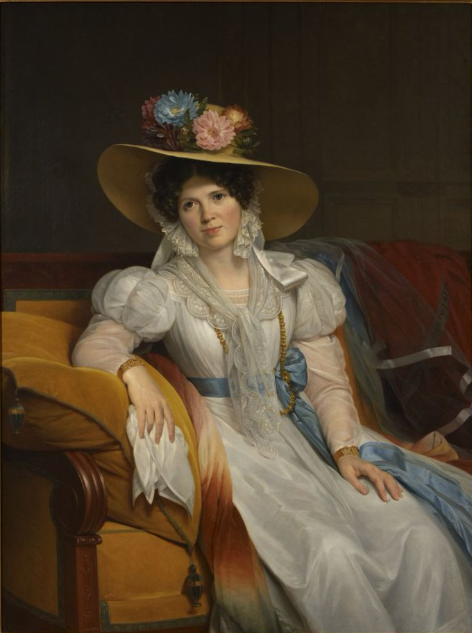 Portrait of Mme Casimir Perier, born Pauline Loyer (1788-1761)